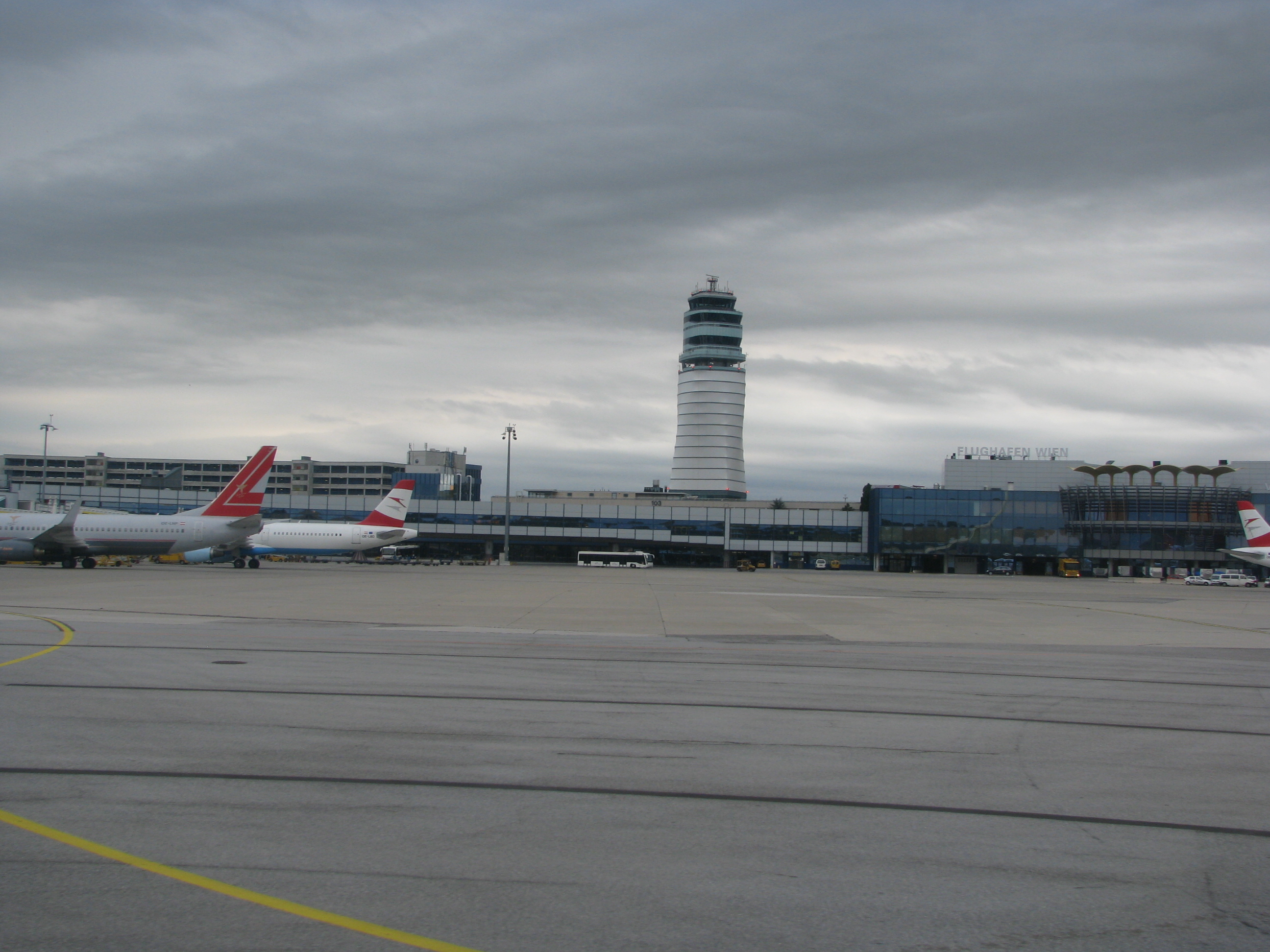 Vienna International Airport